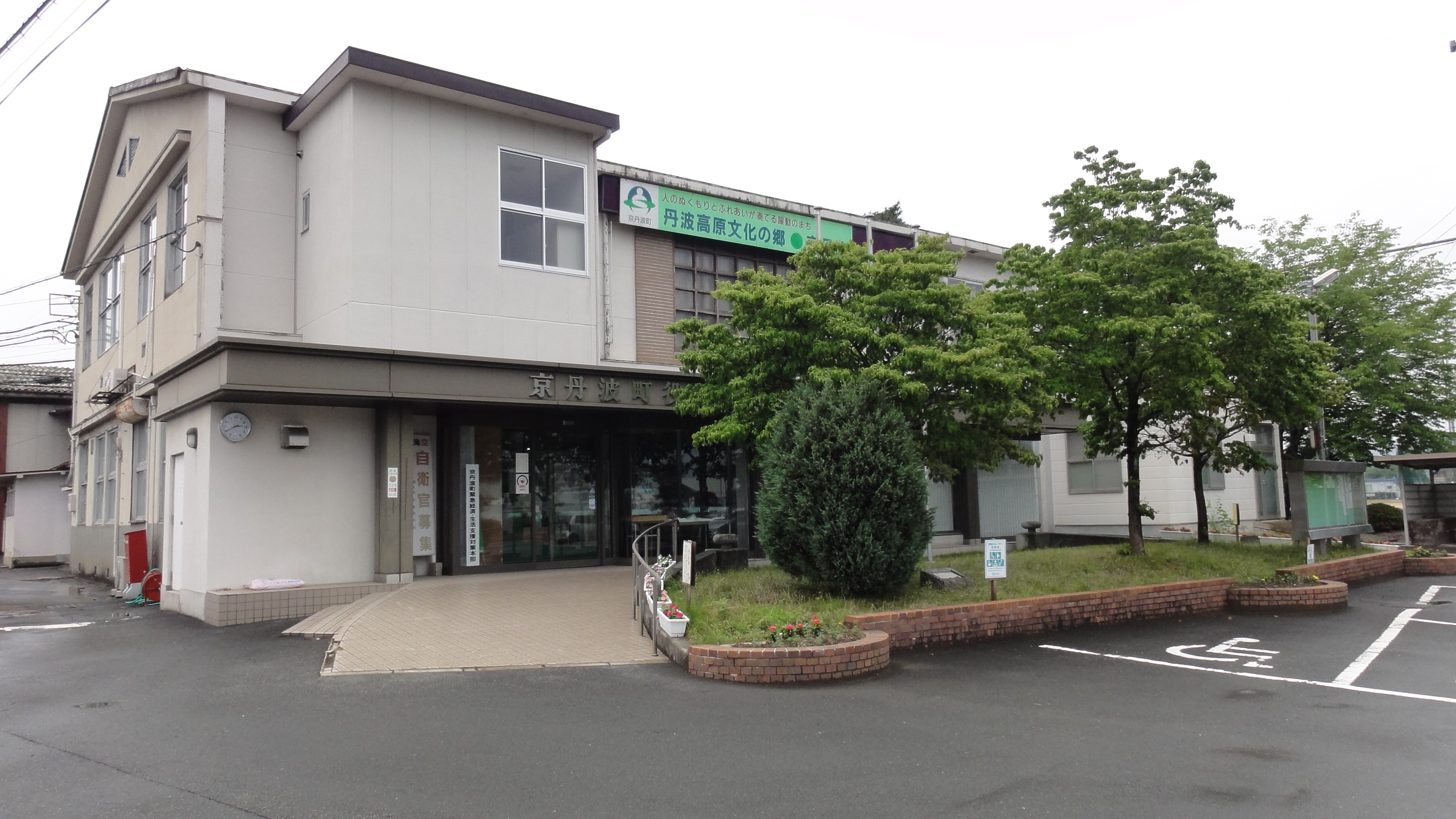 Kyōtamba town office,Kyoto prefecture,Japan